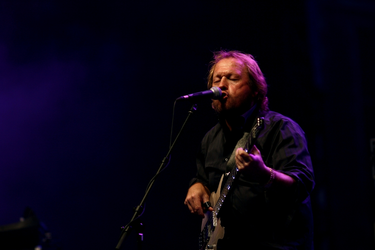 Mark King of Level 42 on a concert; Live in Brussels - 2007